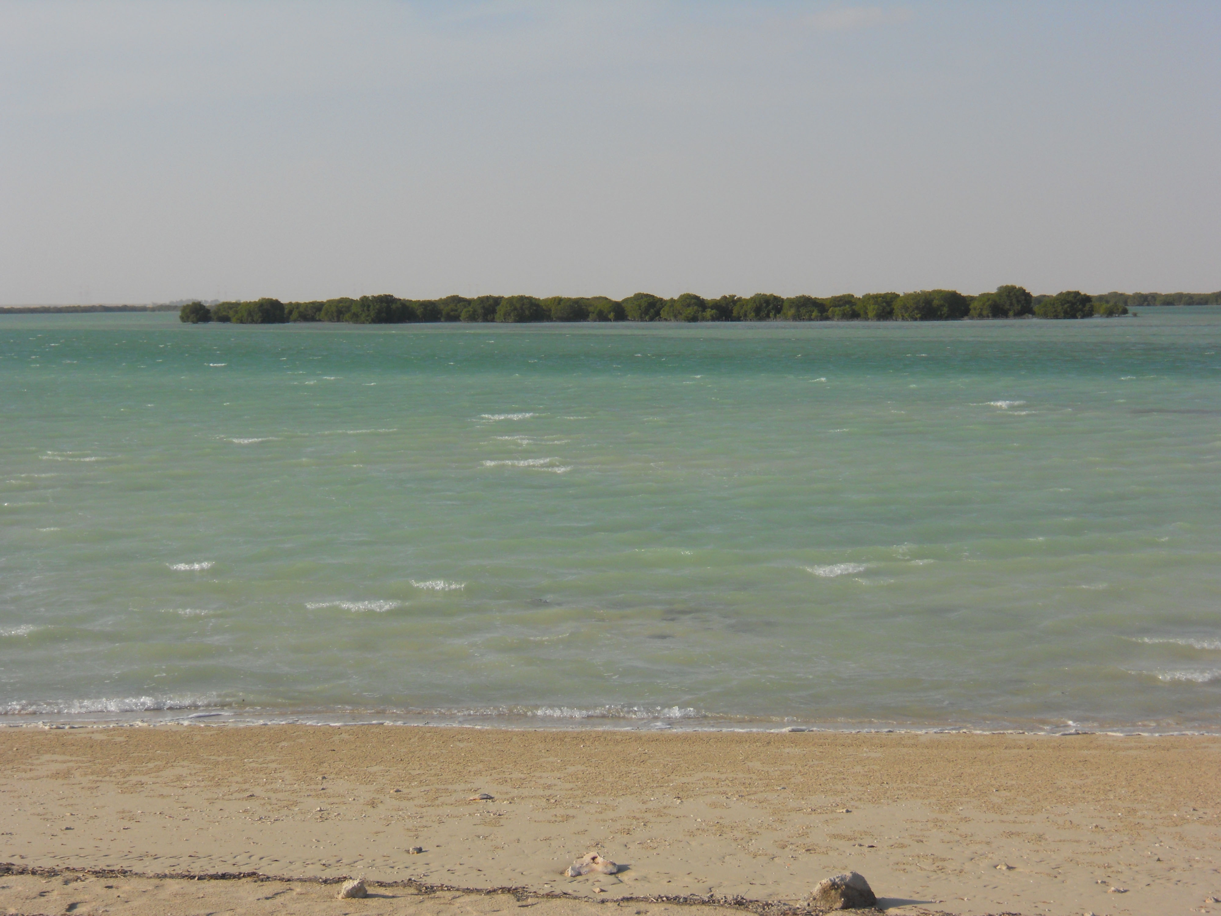 Mangrove island at Dakhira, Qatar